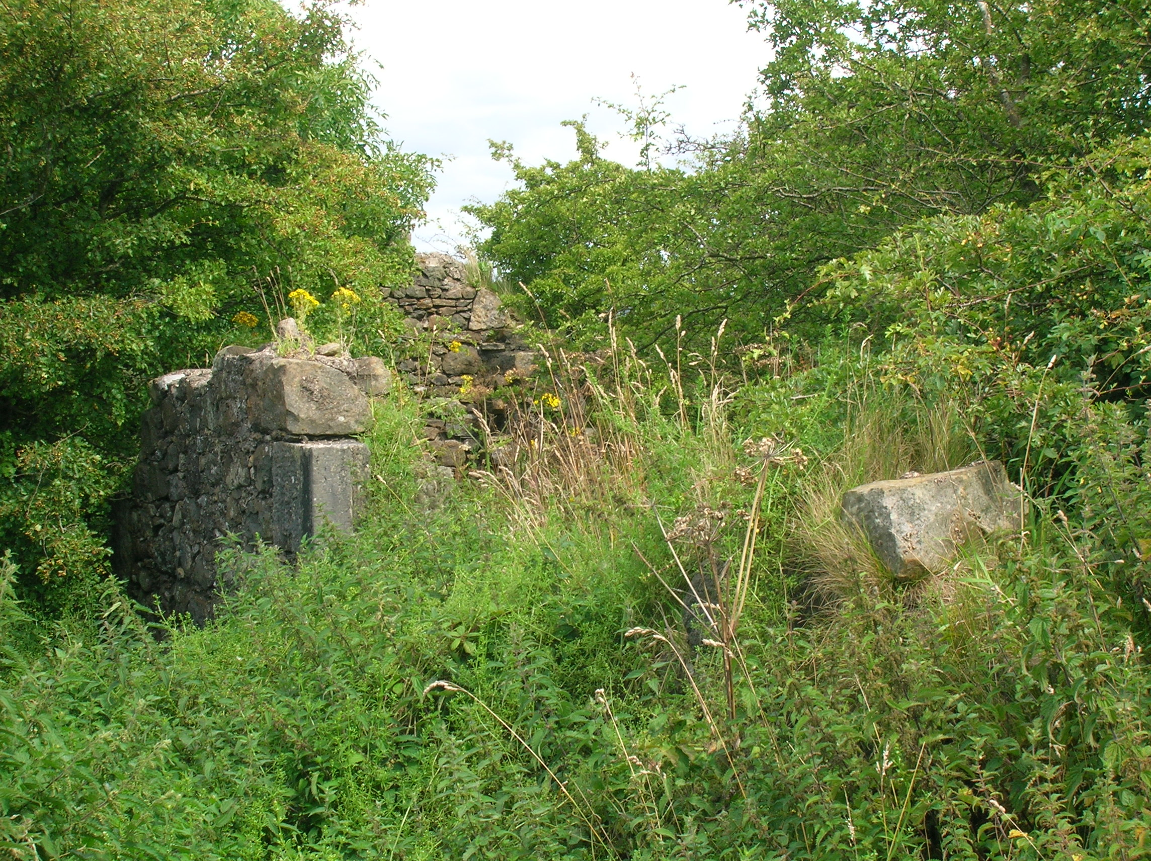 Lynncraigs farm ruins, Dalry, North Ayrshire, Scotland